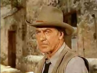 1-Screenshot of Gary Cooper from the trailer for the film Vera Cruz (1954).